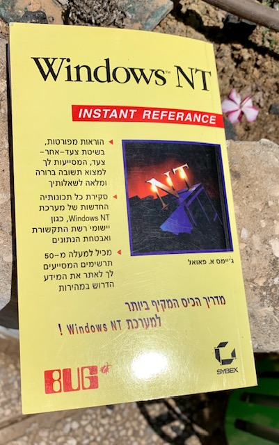 Windows NT Instant Reference Manual, By James E. Powell, Hebrew edition, 1993